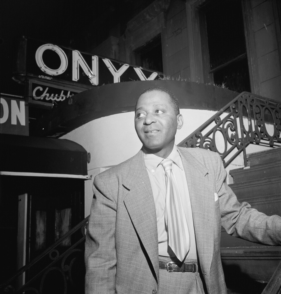 Wilbur De Paris, Onyx, New York